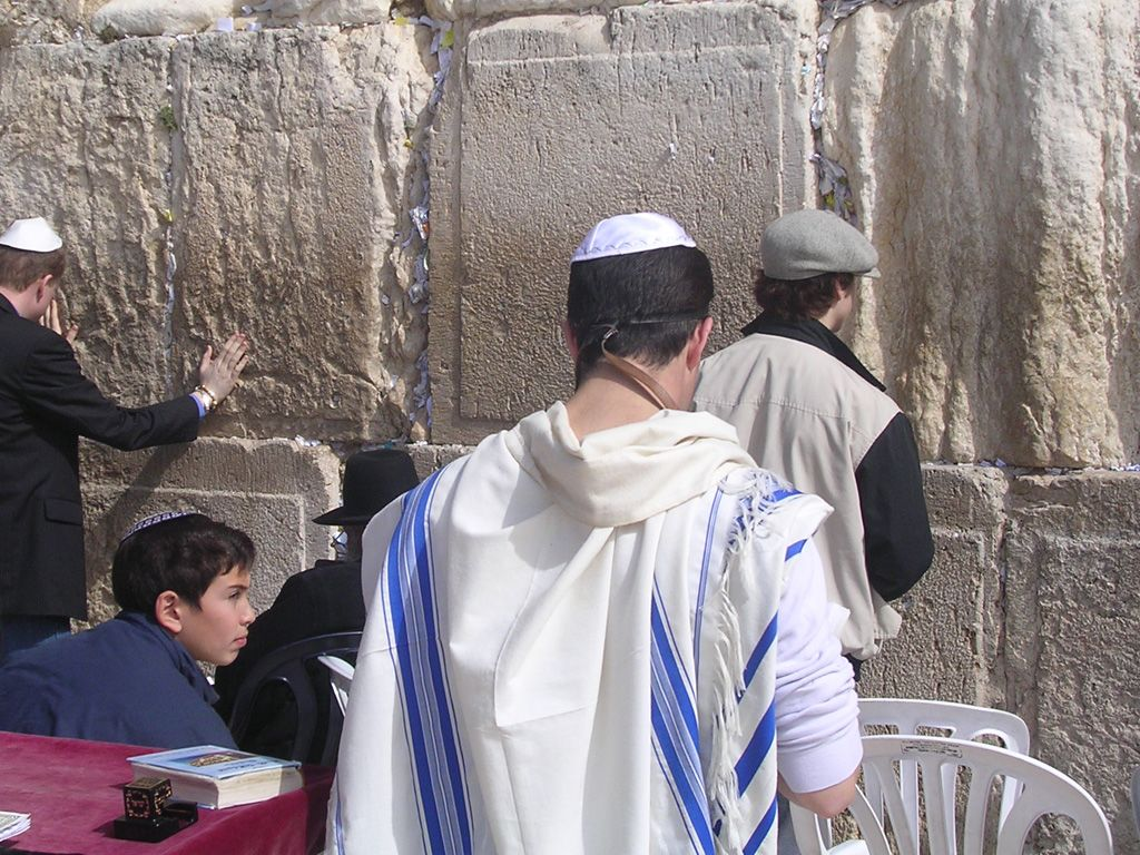 Western Wall, Jerusalem.